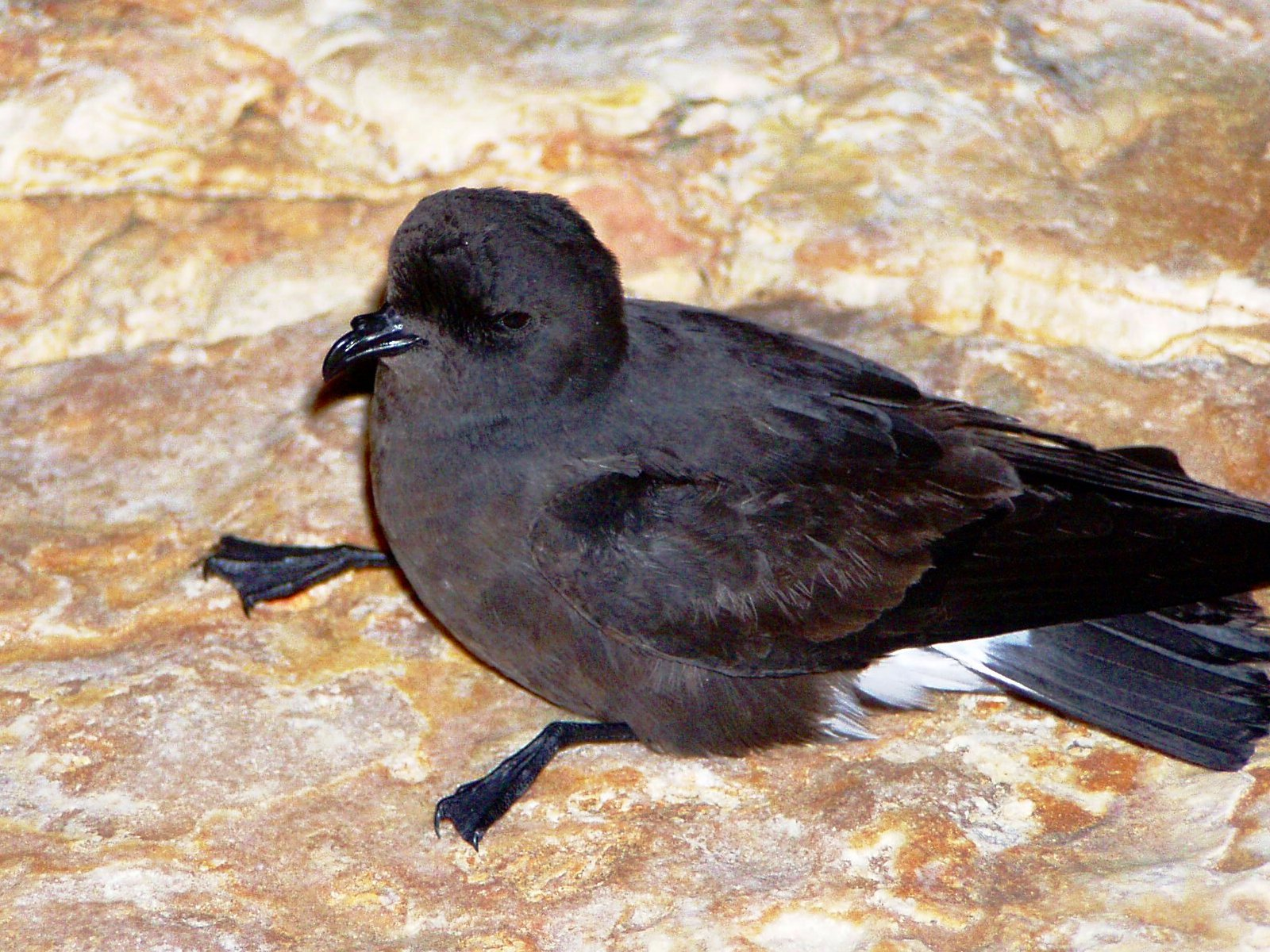 European Storm-petrel. Photographed on rock cliff upon release after being ringed.